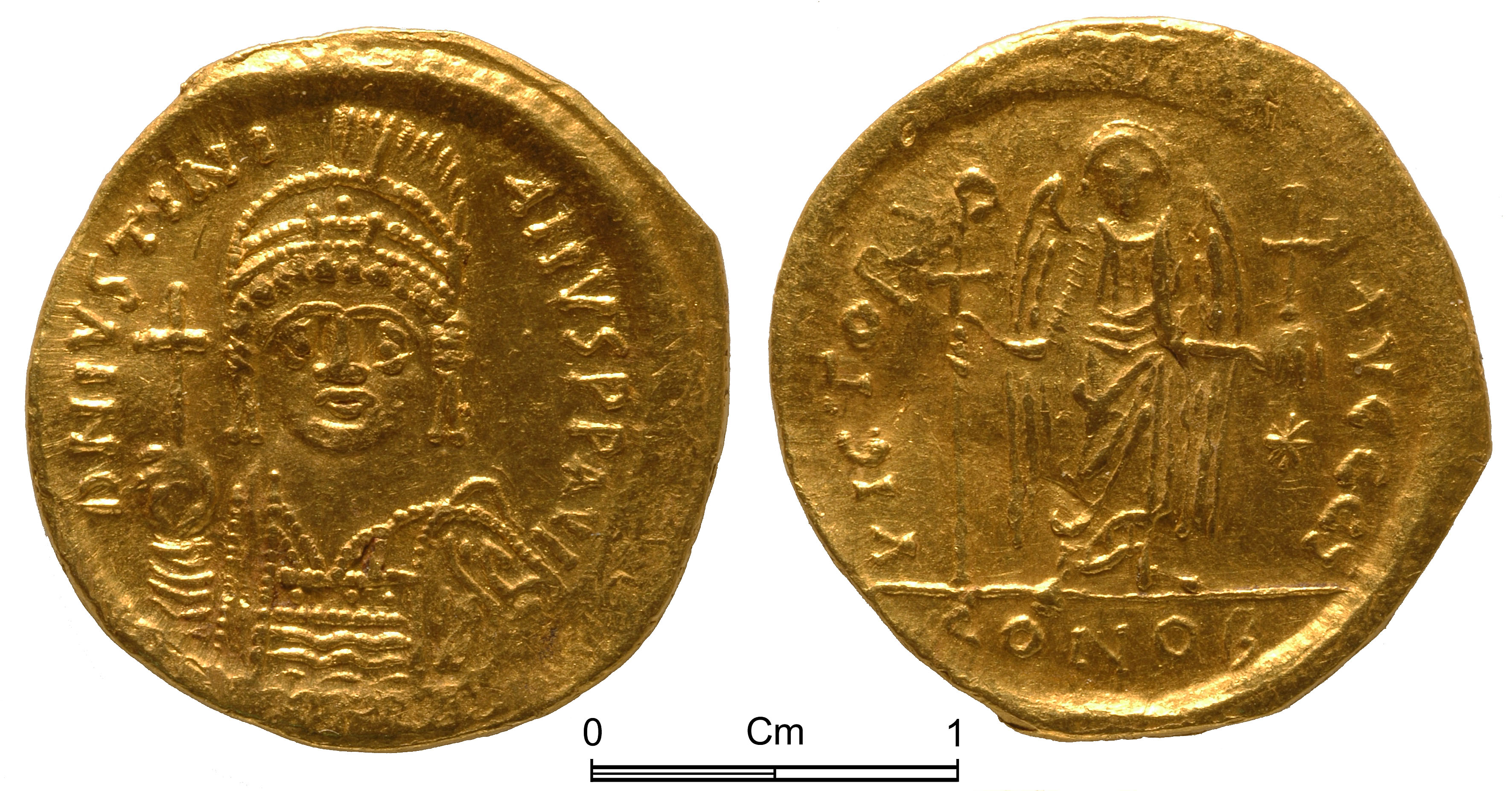 Byzantine Empire gold coin Justinian I (AD527-65) solidus, Constantinople DNIVSTINI-ANVS PP AVI VICTORI-AAVGGG S Angel holding staff surmounted by f and globus crucif